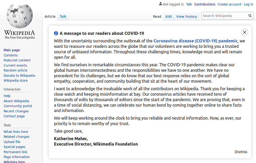 Screenshot English Wikipedia, 26 March 2020: "(i) A message to our readers about COVID-19 With the uncertainty surrounding the outbreak of the Coronavirus disease (COVID-19) pandemic, we want to reassure our readers across the globe that our volunteers are working to bring you a trusted source of unbiased information. Throughout these challenging times, knowledge must and will remain open for all. We find ourselves in remarkable circumstances this year. The COVID-19 pandemic makes clear our global human interconnectedness and the responsibilities we have to one another. We have no precedent for its challenges, but we do know that our best response relies on the sort of global empathy, cooperation, and community building that sit at the heart of our movement. I want to acknowledge the invaluable work of all the contributors on Wikipedia. Thank you for keeping a close watch and keeping misinformation at bay. Our coronavirus articles have received tens of thousands of edits by thousands of editors since the start of the pandemic. We are proving that, even in a time of social distancing, we can celebrate our human bond by coming together online to share facts and information. We will keep working around the clock to bring you reliable and neutral information. Now, as ever, our priority is to remain worthy of your trust. Take good care, Katherine Maher, Executive Director, Wikimedia Foundation Dismiss"